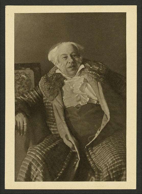 Konstantin Stanislavsky as Famusov in Woe from Wisdom by Aleksandr Griboyedov.